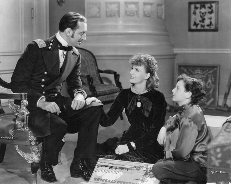 Promotional still from the 1935 film Anna Karenina, published in National Board of Review Magazine. L-R: Basil Rathbone, Greta Garbo, and Freddie Bartholomew